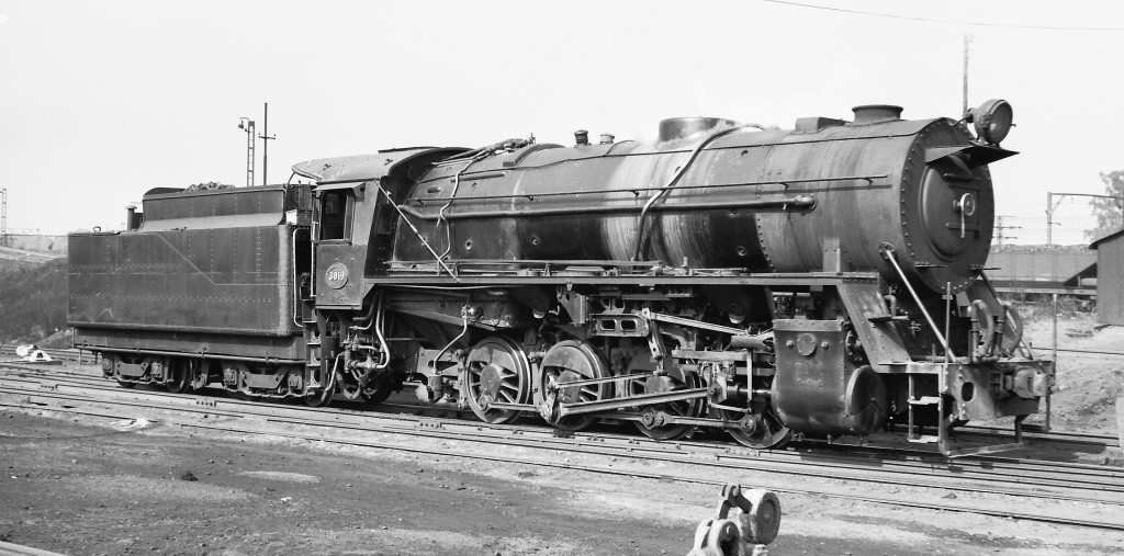 SAR Class S1 3819 (0-8-0)Location: Germiston Loco, Transvaal